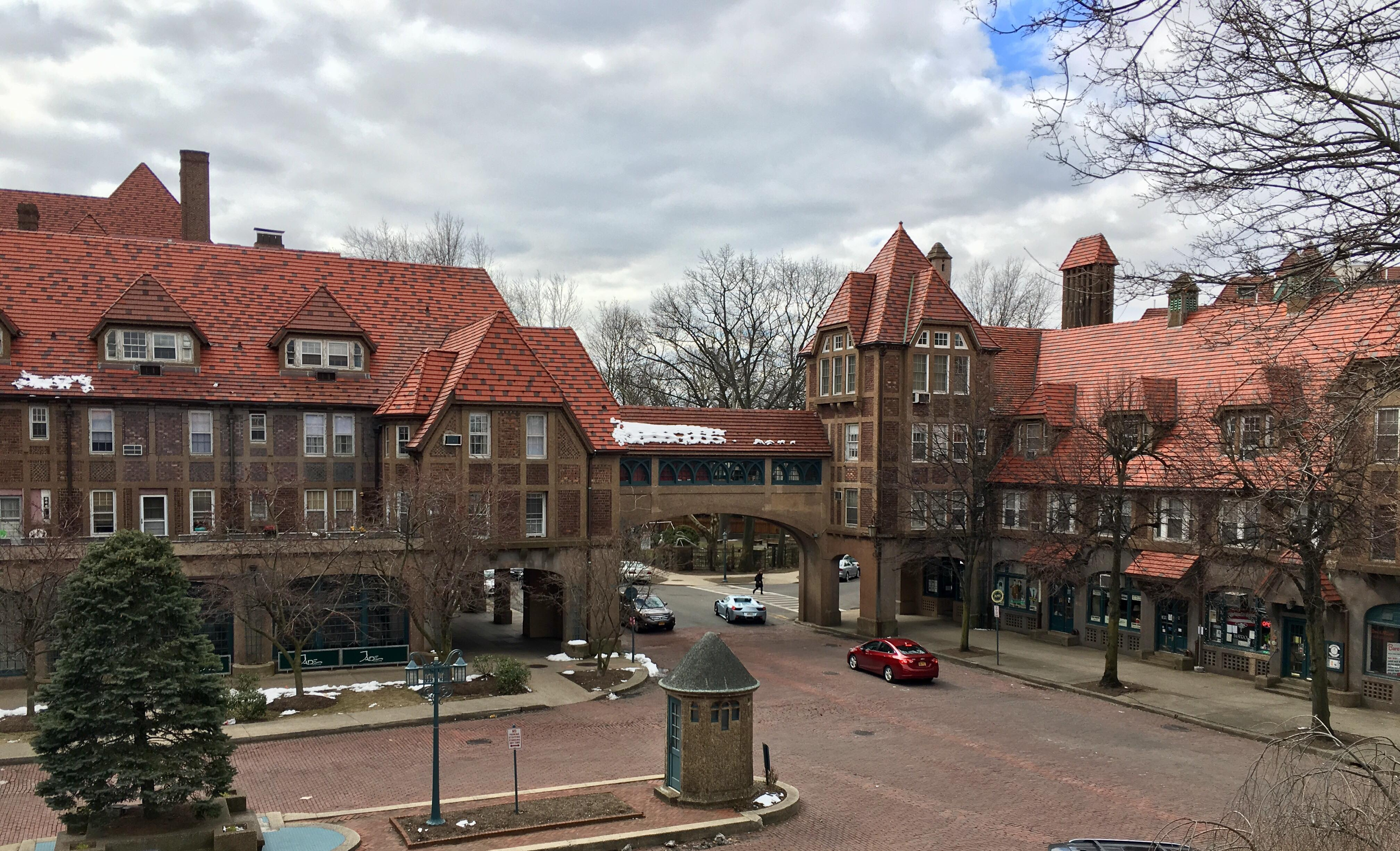 Station Square at Forest Hills, New York in March 2018.